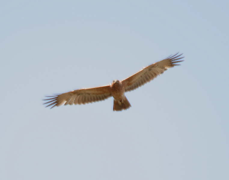 Bonelli's Eagle Aquila fasciata in Kawal Wildlife Sanctuary, Andhra Pradesh, India.